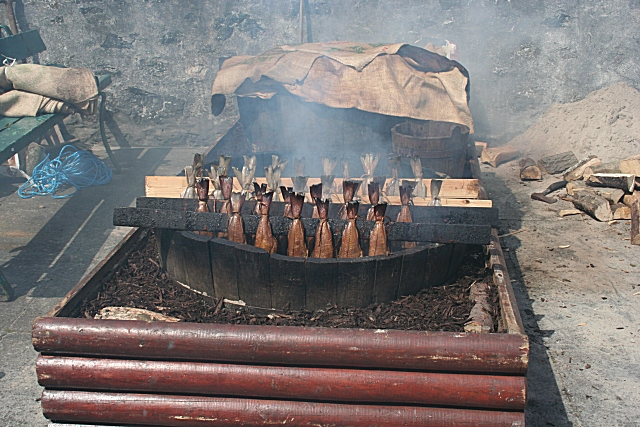 Arbroath Smokies Haddock are gutted and tied together in pairs, then suspended on either side of a rack. Several racks are laid across a half cask, in the bottom of which are smouldering wood chips, usually hardwood. The racks are then covered with sacking and the fish smoked. They emerge succulent and tasty, a real treat to eat.